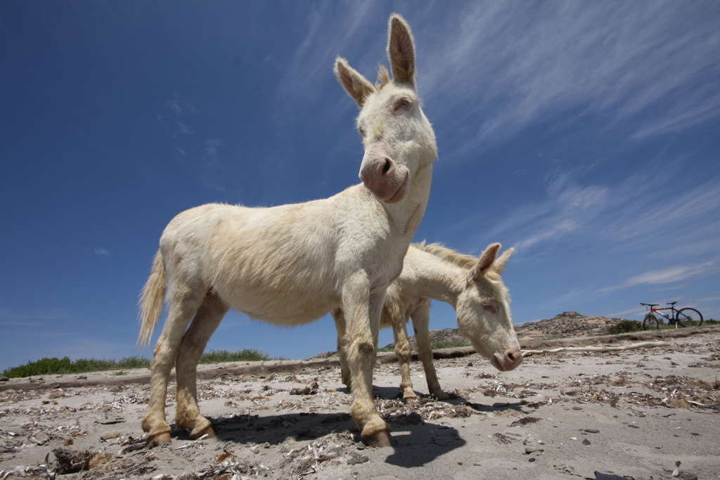 Endemic white donkey with blue eyes in the Isle of Asinara, province of Sassari, Sardinia